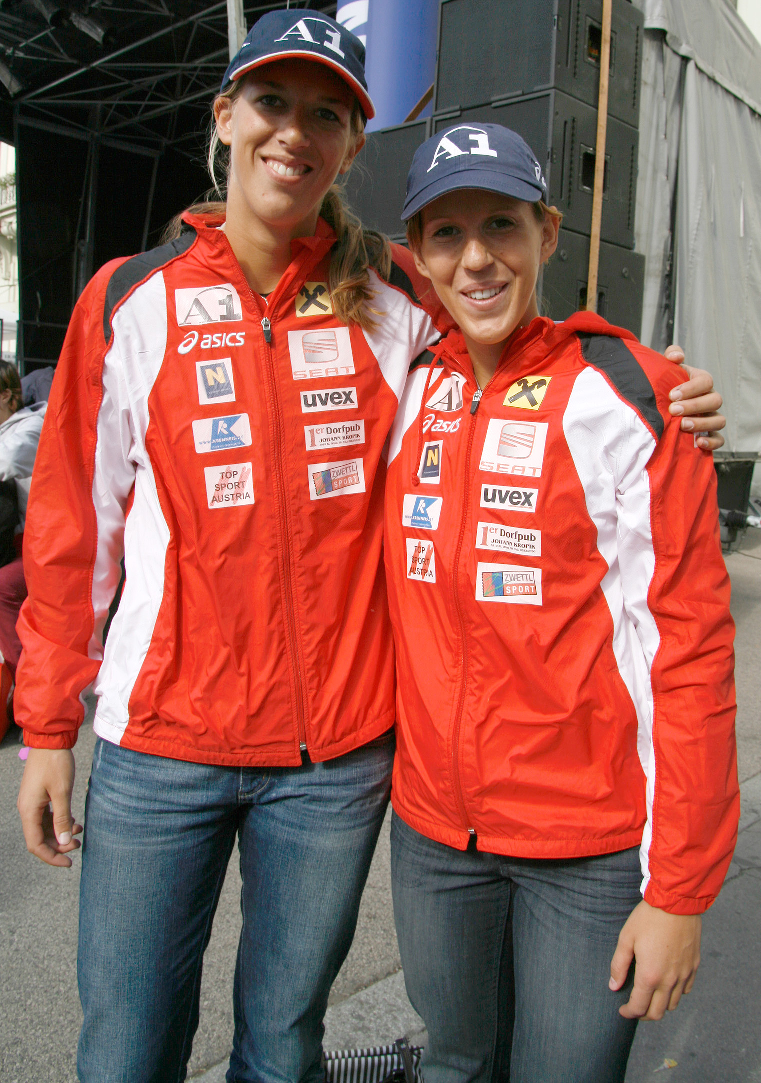 Austrian beachvolleyball players Stefanie Schwaiger (l.) and Doris Schwaiger ("Day of Sports", Heldenplatz, Vienna).